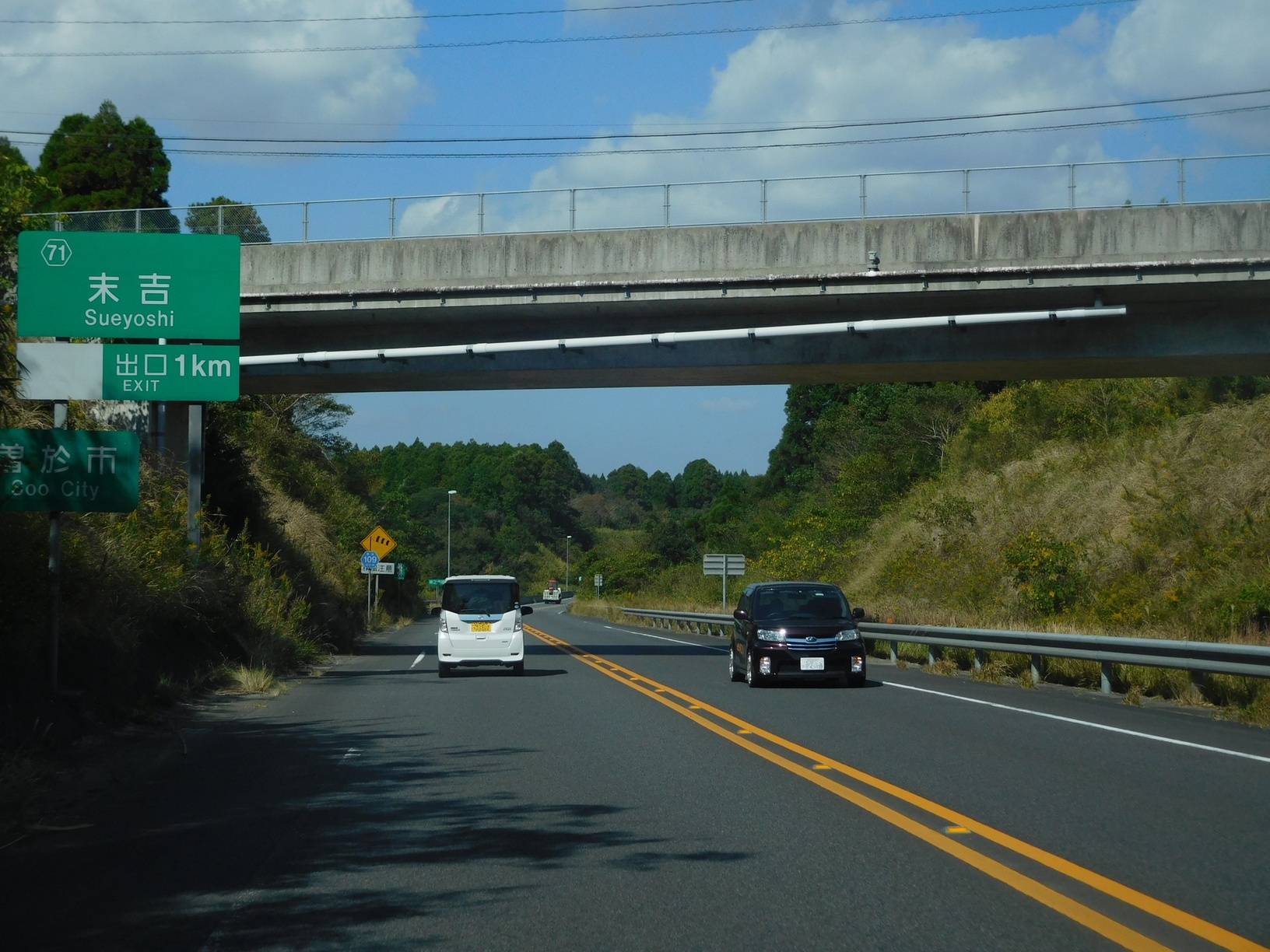 Miyakonojo - Shibushi Road (Soo City, Kagoshima Prefecture, Japan)